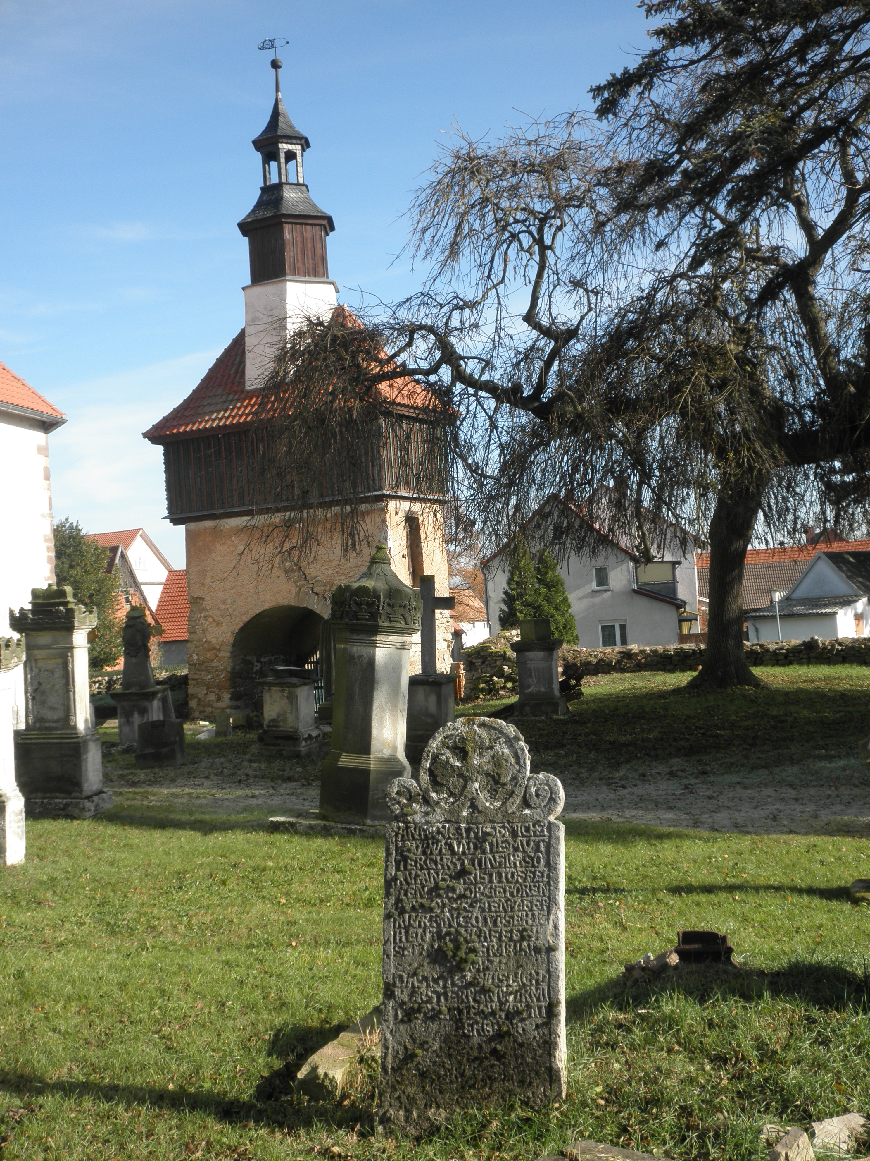 Gravestones and Church Gate in Abtsbessingen in Thuringia